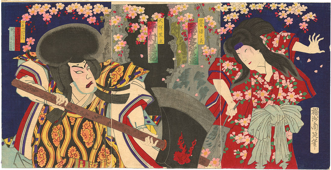 The dance sequence from Seki no to ("The Barrier Gate") from the play Jûni hitoe Komachi zakura ("Twelve-layered Robes: The Cherry Tree by Komachi").